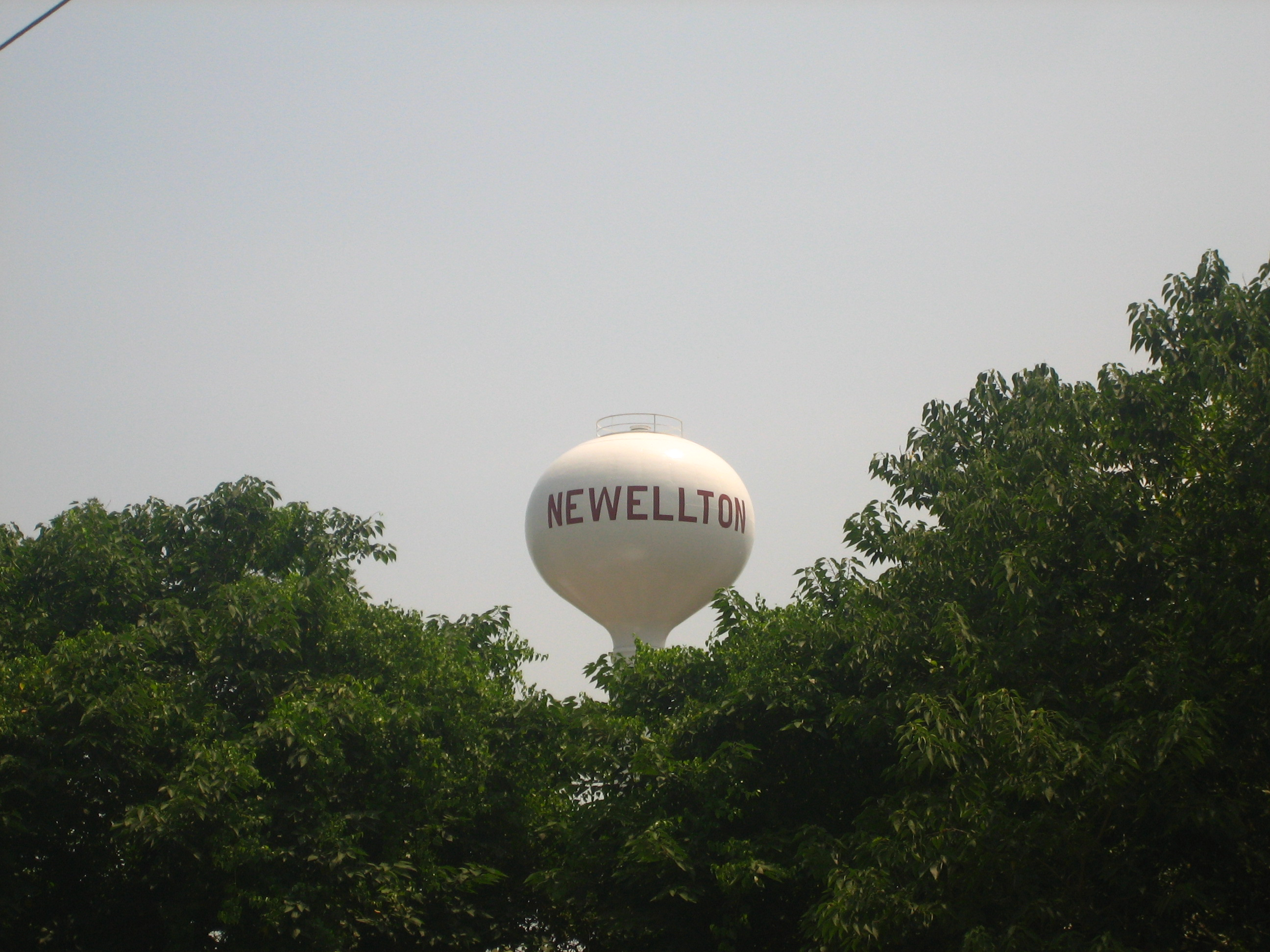 Water Tower, Newellton, LA. Note: I took photo on Aug. 2, 2008. Billy Hathorn (talk) 02:08, 16 August 2008 (UTC)